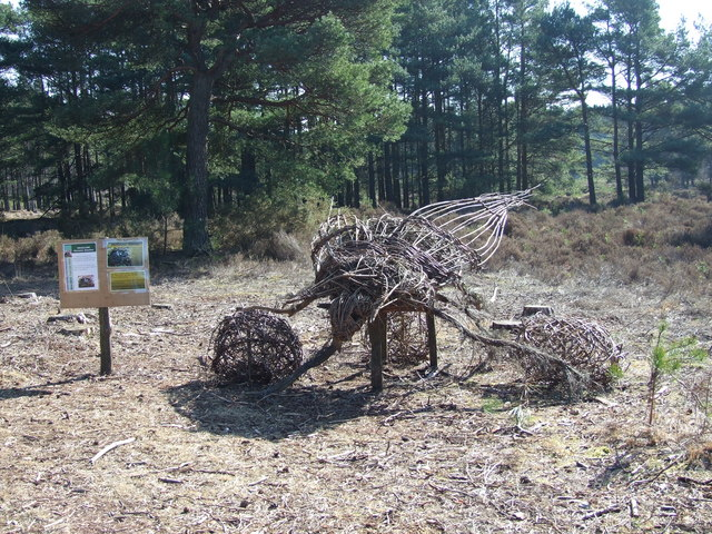 Woodland Sculpture in Avon Heath Country Park A willow sculpture of a Minotaur 'dung' beetle by local artist Olivia Keith, with the help of Beaucroft and Emmanuel Middle School pupils. The Minotaur beetle lives in sandy areas on the heath.